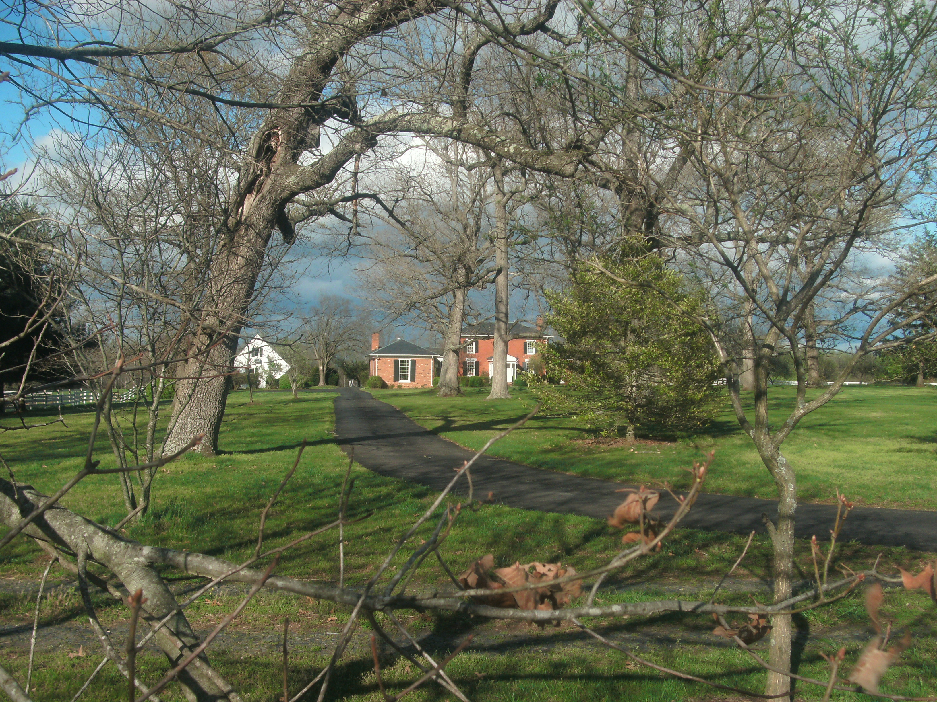 Buckingham Female Collegiate Institute Historical District, Gravel Hill, Virginia